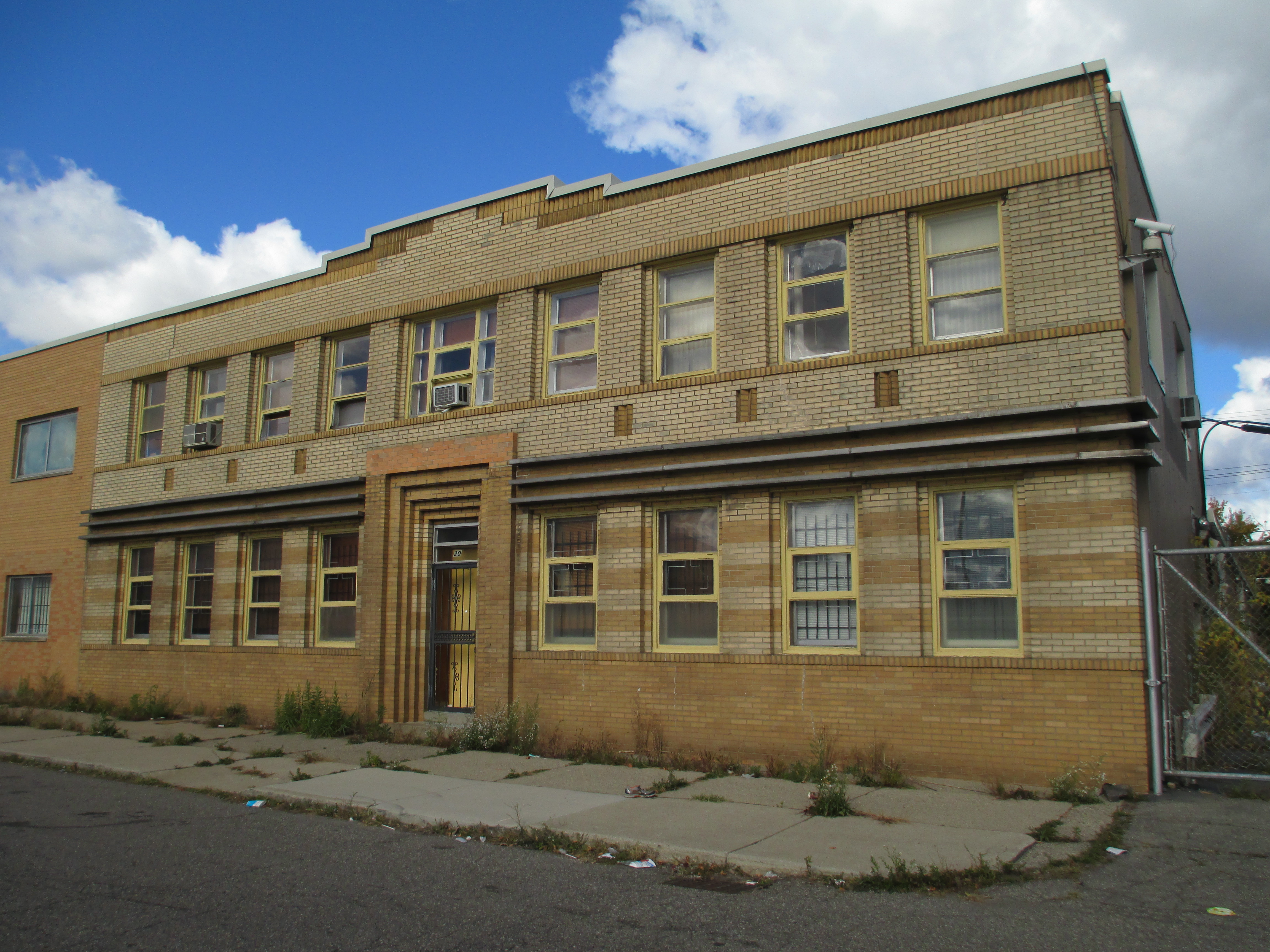 Former Highland Park Schools (Michigan) headquarters. 20 Bartlett St Highland Park, MI 48203